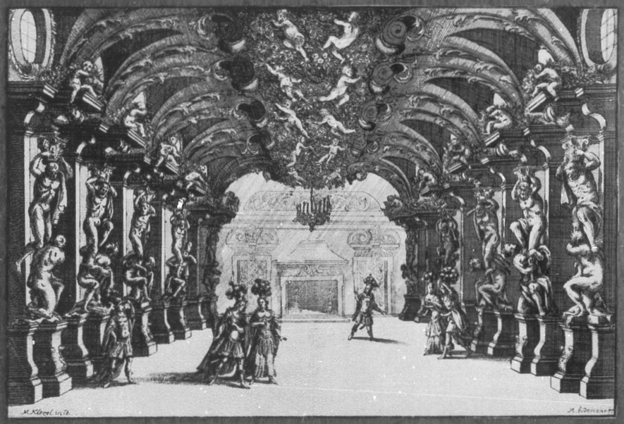 Stage setting of the opera Camillo Generose of Carlo Luigi Pietragrua, Opernhaus am Taschenberg (Opera House) in Dresden, Germany, 1693